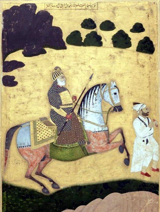 Equestrian portrait of Alivardi Khan